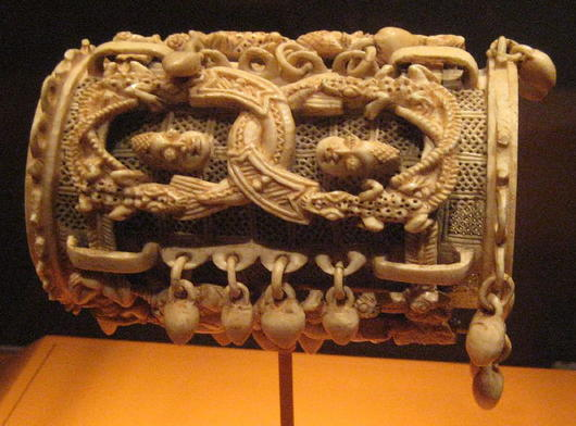 16th century Ivory armlet from the Yoruba peoples. Owo region in Nigeria. Now in the National Museum of African Art, Washington DC.